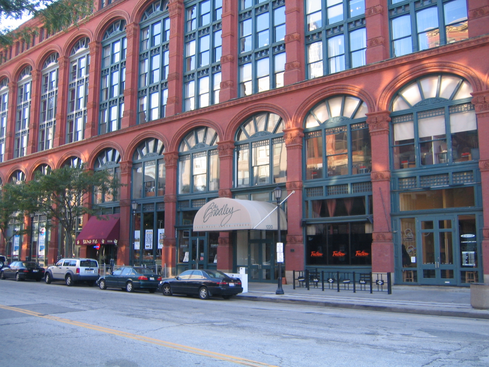 The Bradley Building on West 6th Street in Cleveland, Ohio